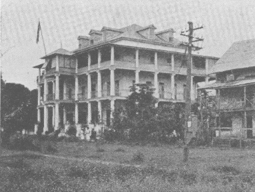 Photograph of the old presidential executive mansion, Monrovia, Liberia